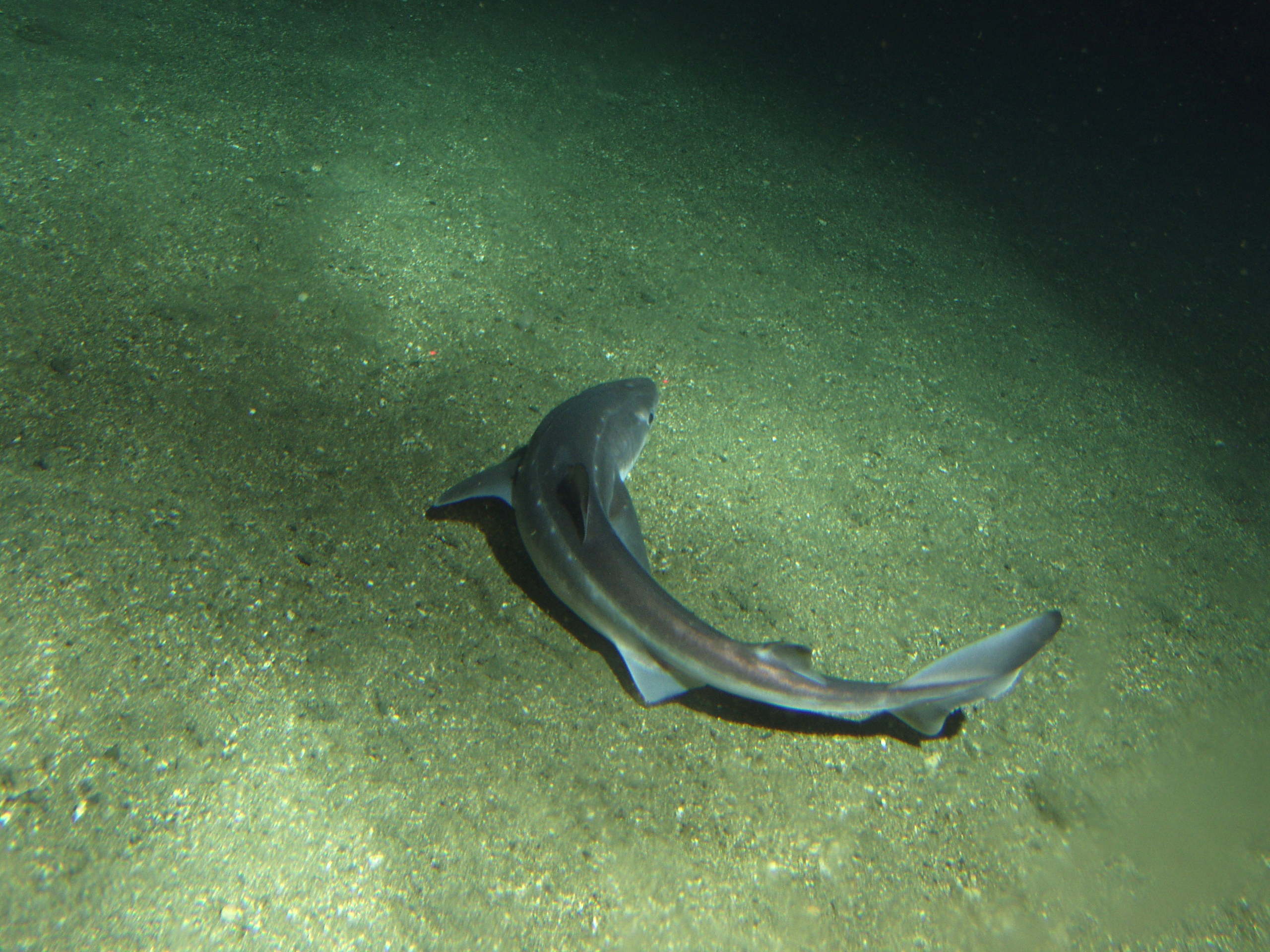 Spiny Dogfish shark (Squalus acanthias) on soft bottom habitat at 302 meters. Latitude 38 03 N., Longitude 123 -31 W. California, Cordell Bank National Marine Sanctuary. 2005.